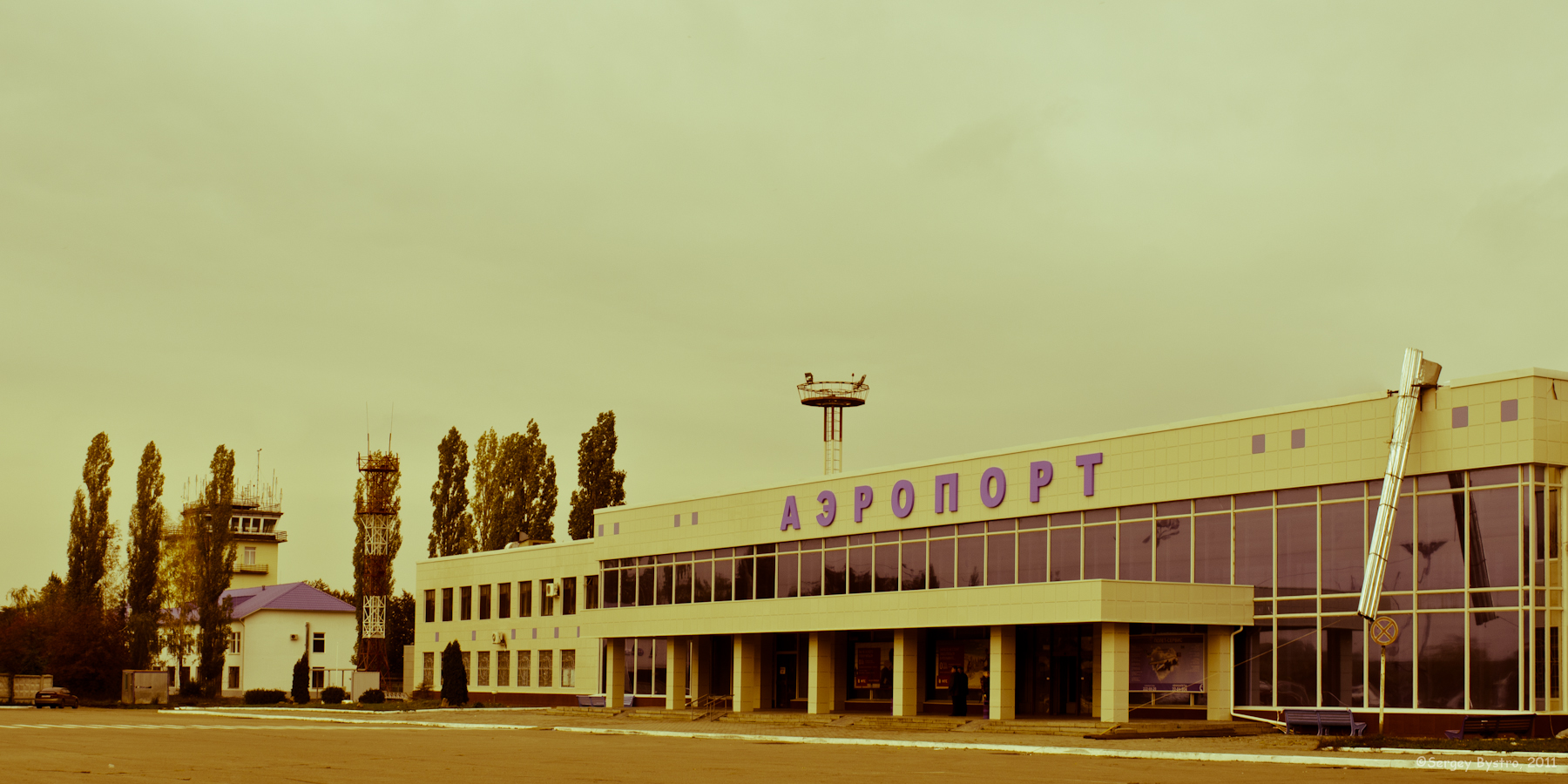 Voronezh Airport